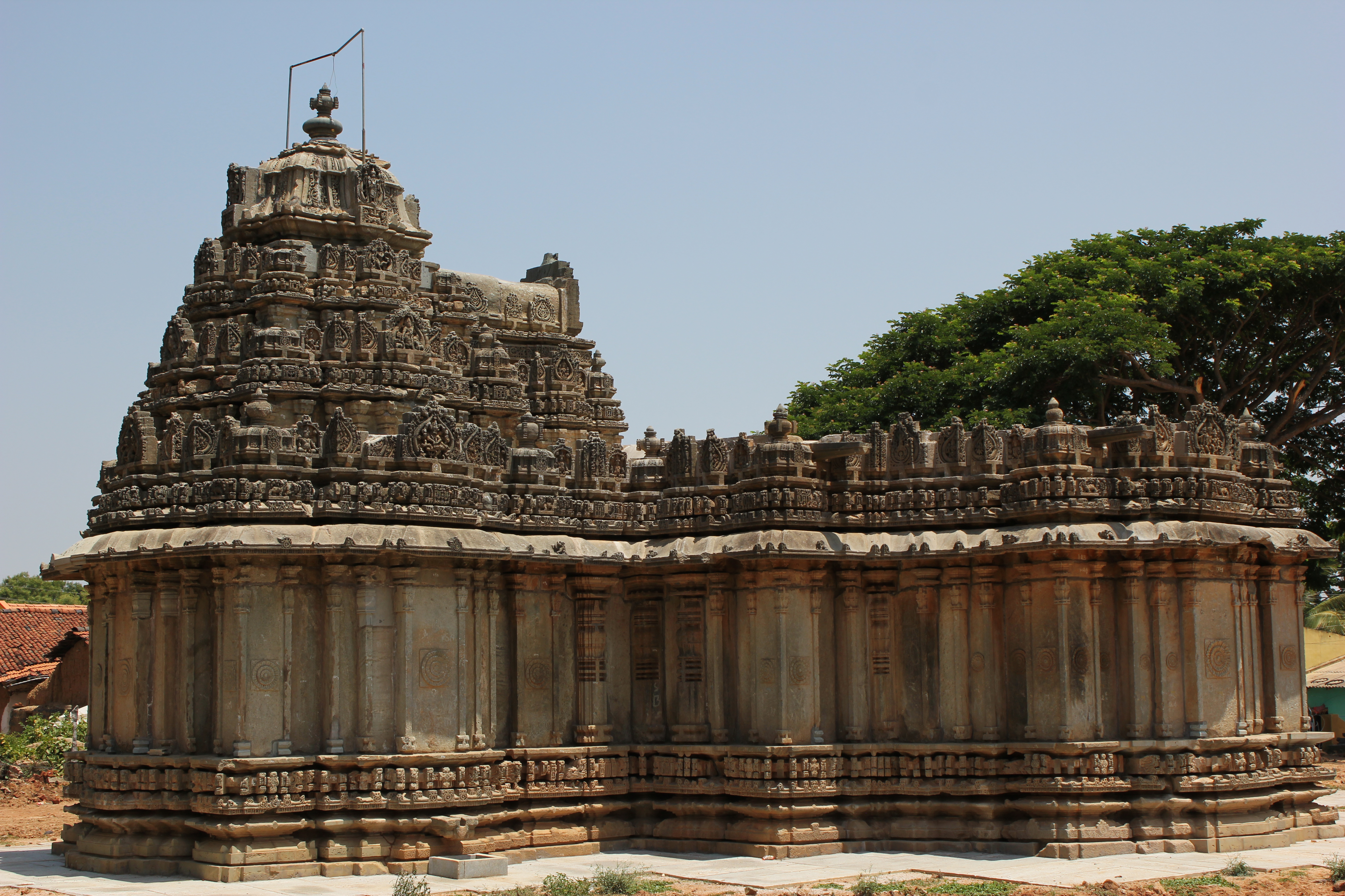 This photo was taken by me (Dinesh Kannambadi) at the Lakshmi Narasimha temple in Vignasante, Tumkur district, Karnataka state, India. It was built in 1286 CE during the rule of the Hoysala Empire King Narasimha III.